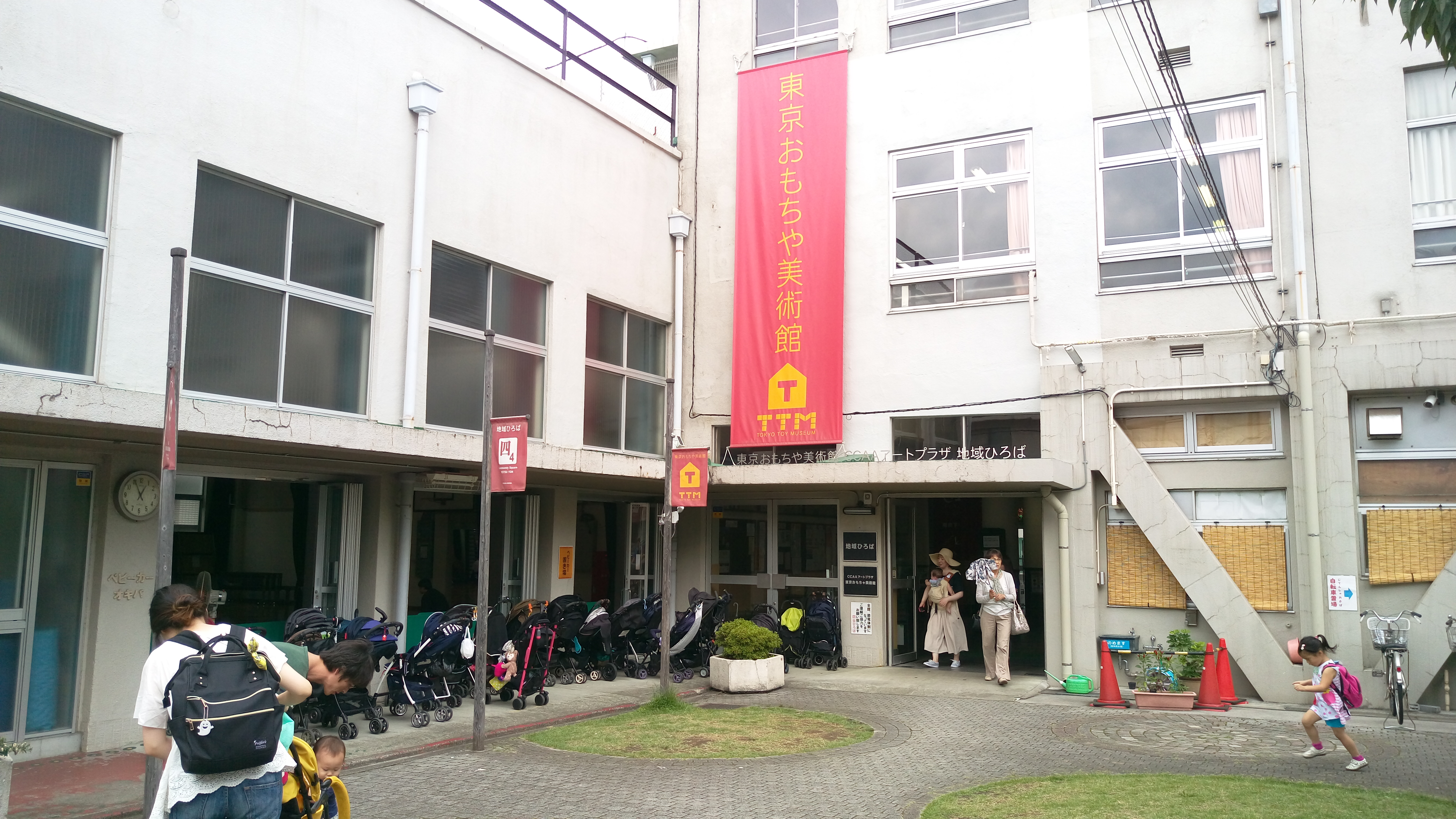 Entrance of Tokyo Toy Museum